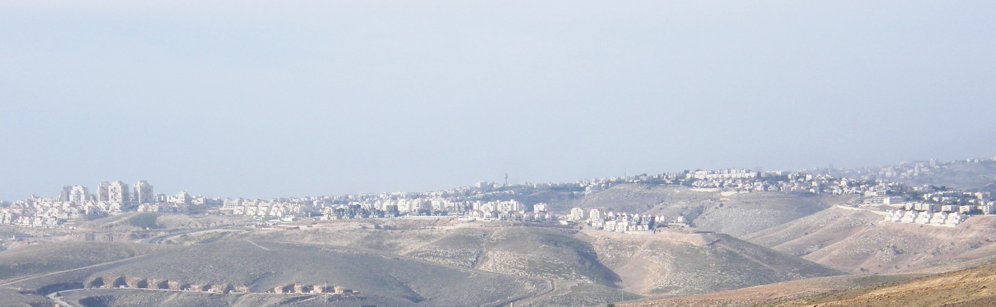 Israel, Ma'ale Adumim, view from Kfar Adumim